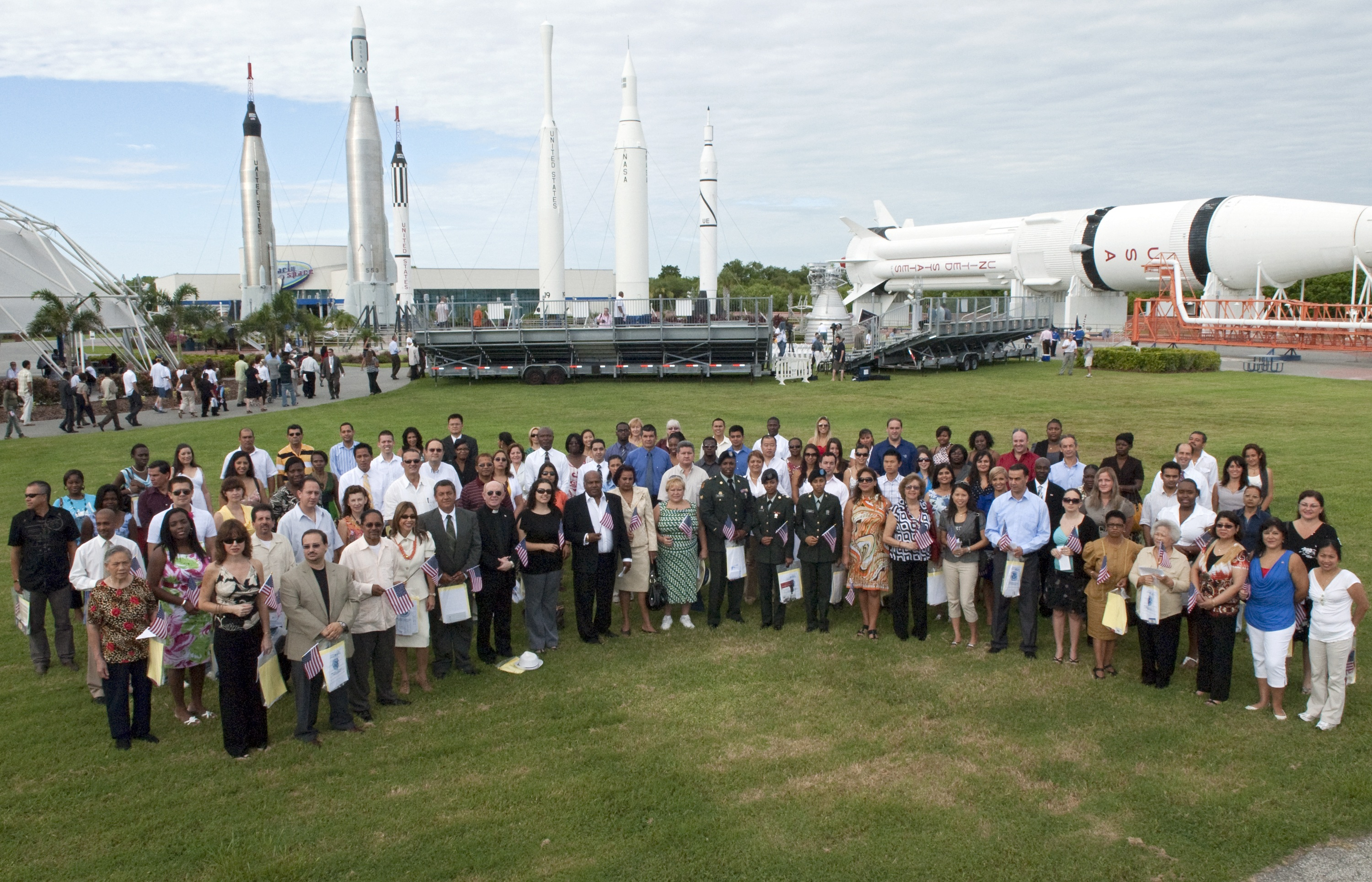 American citizen applicants came to the Rocket Garden for a naturalization ceremony.